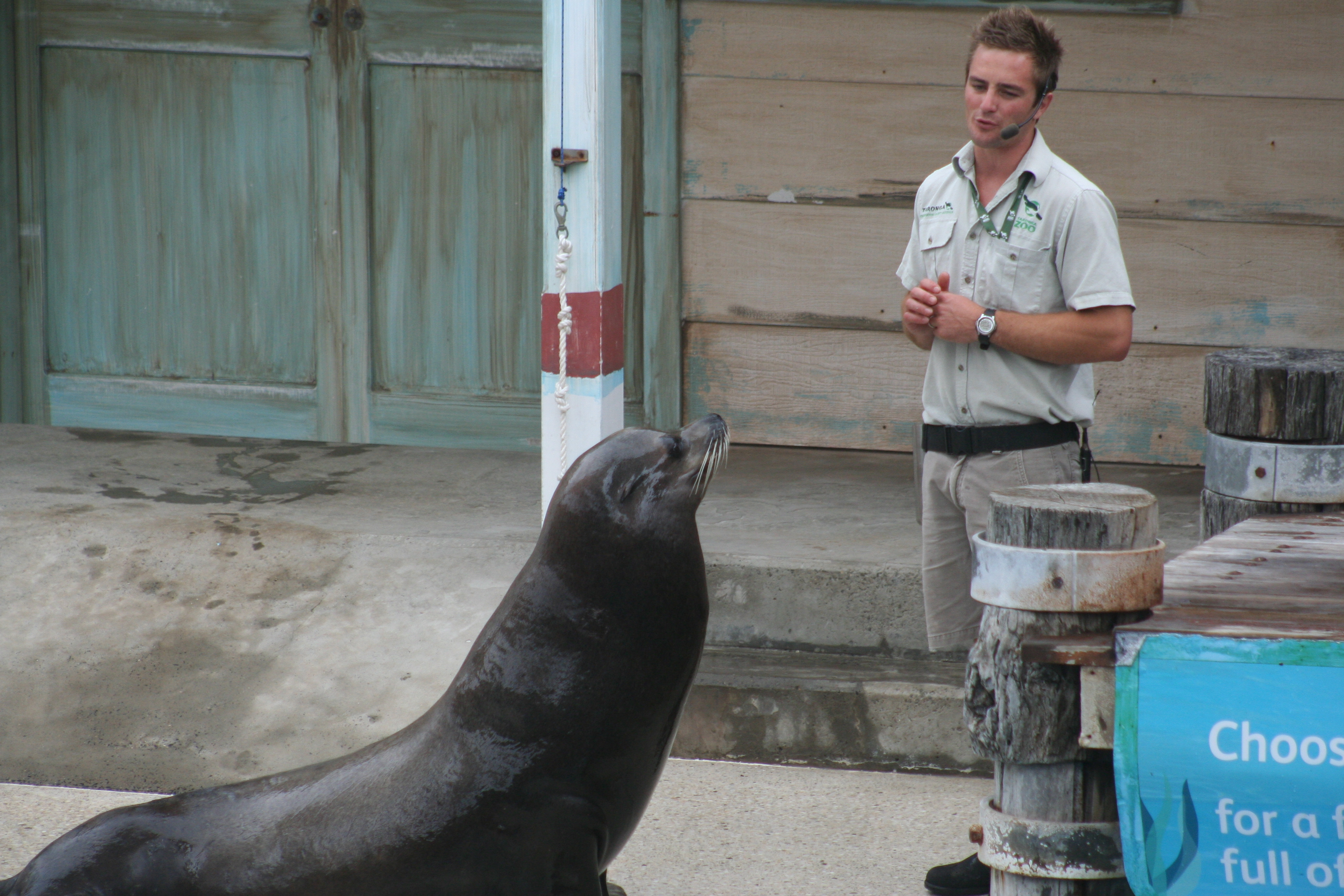 Trained seals put up a great show for visitors at Taronga